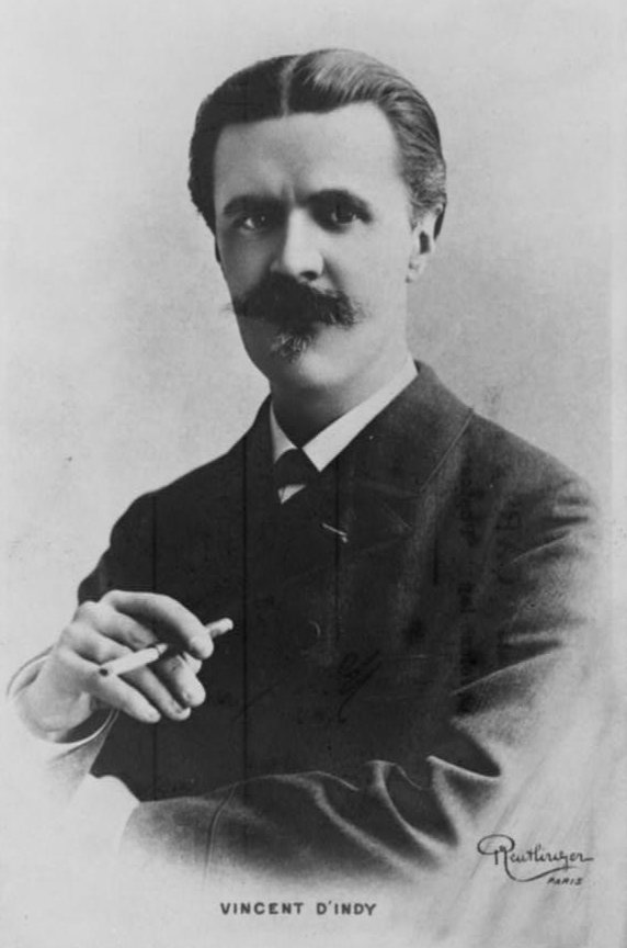 Portrait of Vincent d'Indy (1851–1931), French composer